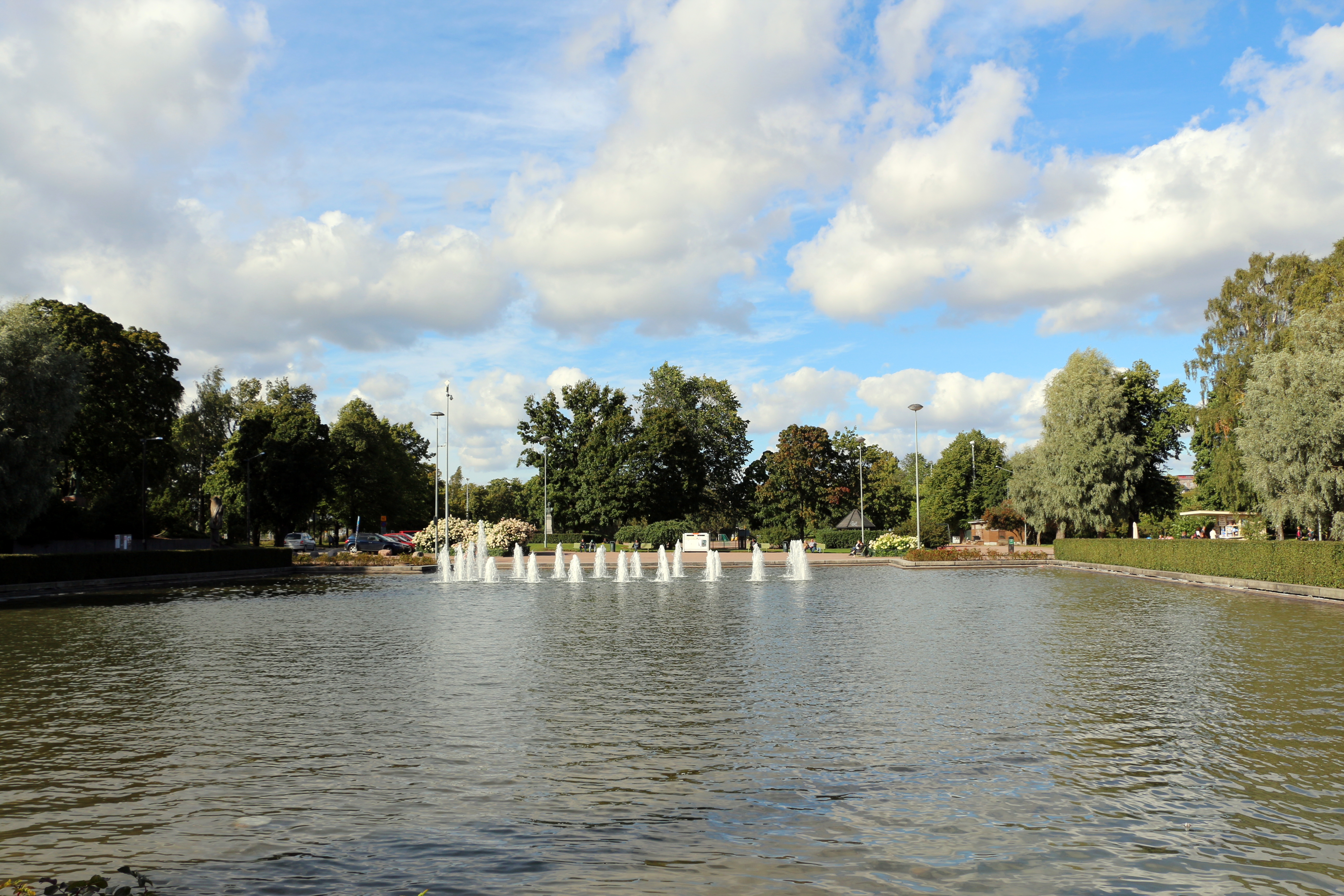 Fountain in Kaisaniemi park